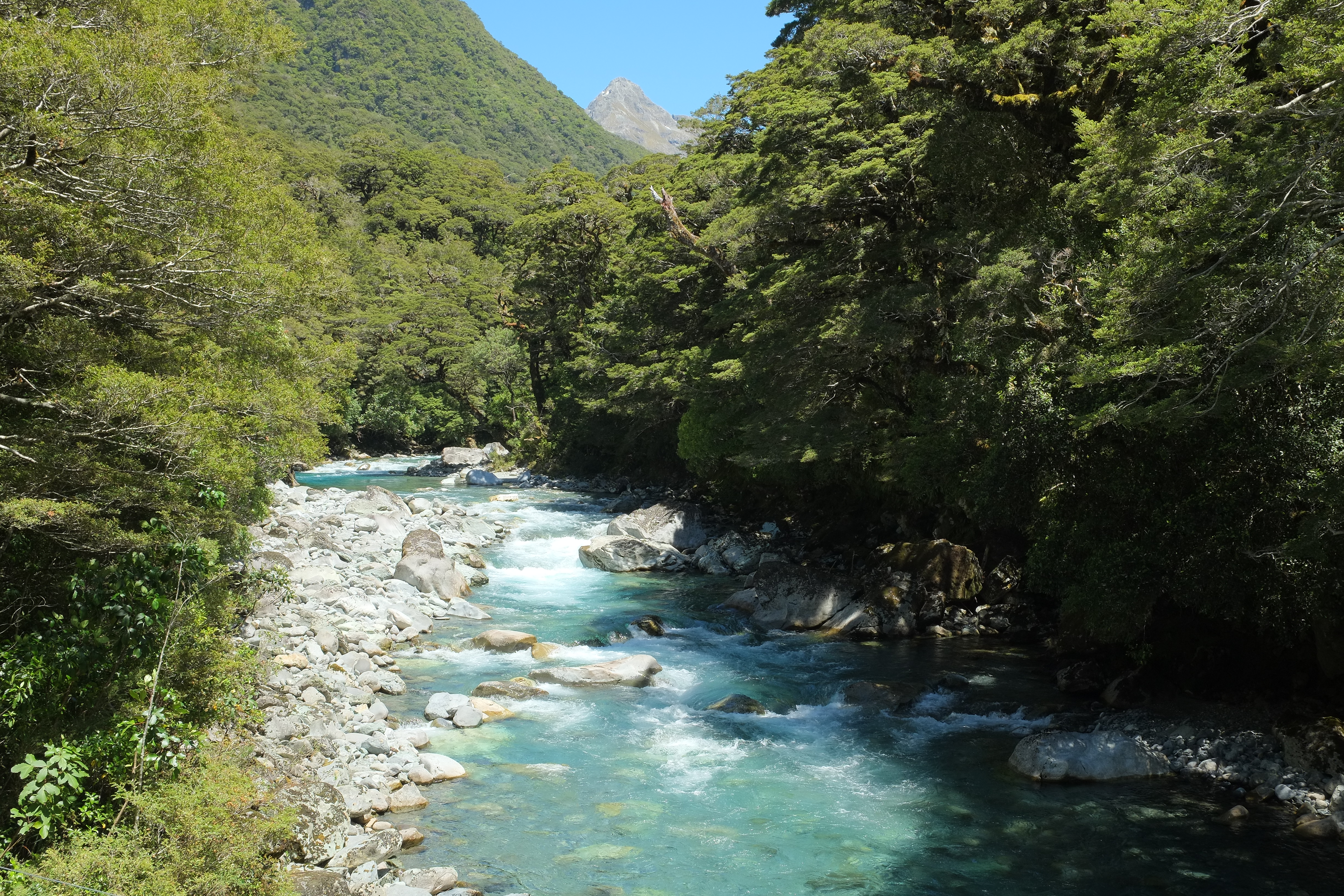 Hollyford River from bridge at the start of the Marian Creek track